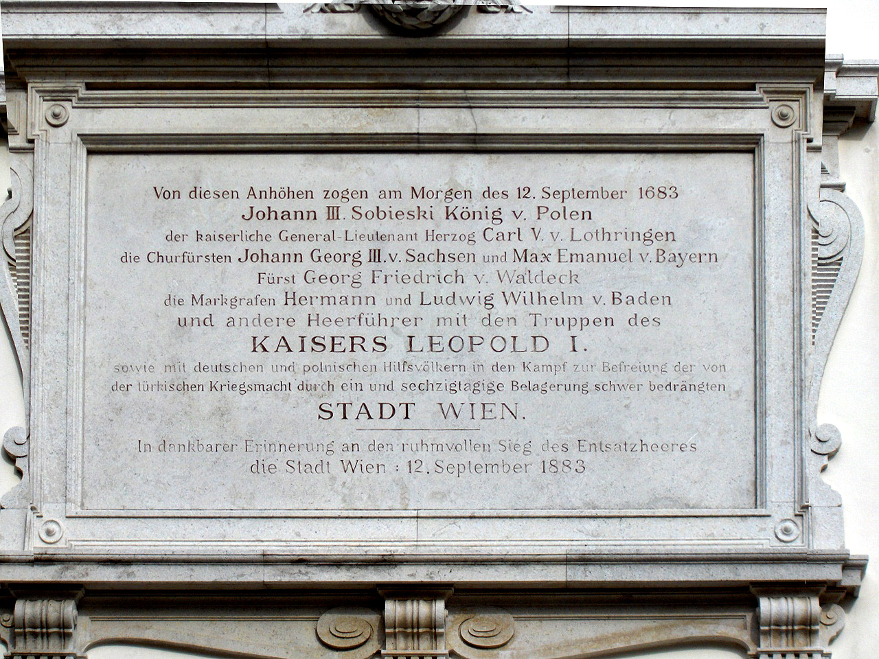 Commemorative plaque of the Battle of Vienna on the Kahlenberg near Vienna, Austria